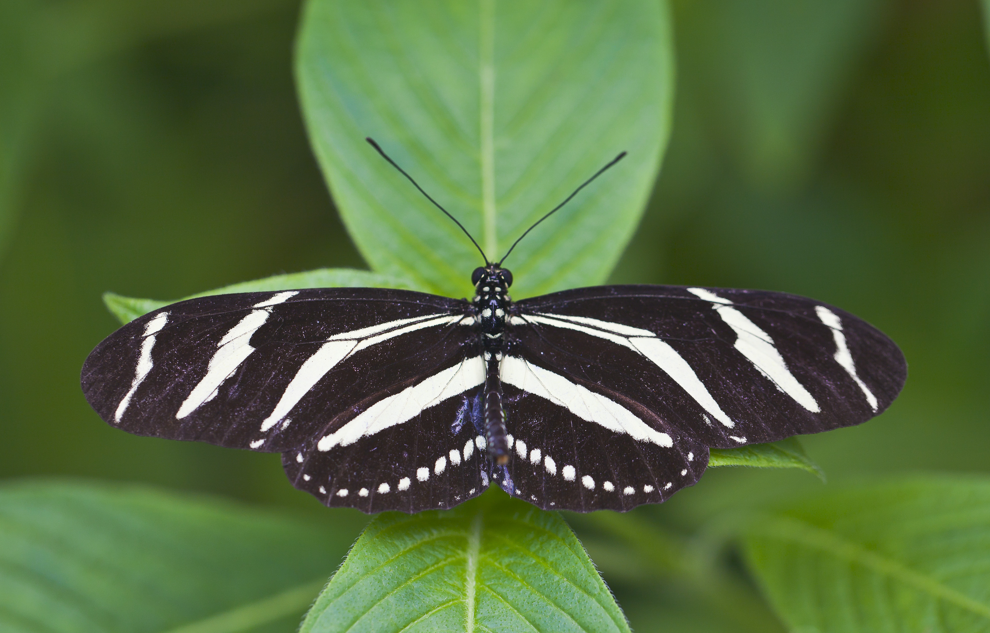 Heliconius charithonia, Butterfly zoo of Icod de los Vinos, Tenerife, Spain